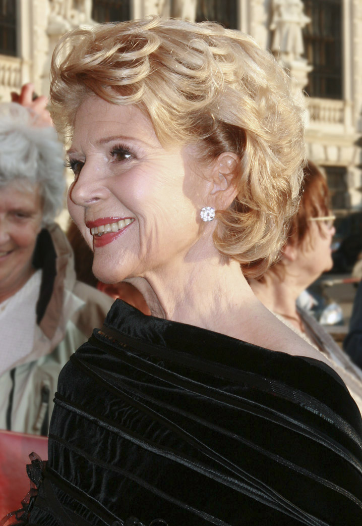 Actress Christiane Hörbiger at the Romy TV awards (Hofburg Imperial Palace in Vienna)